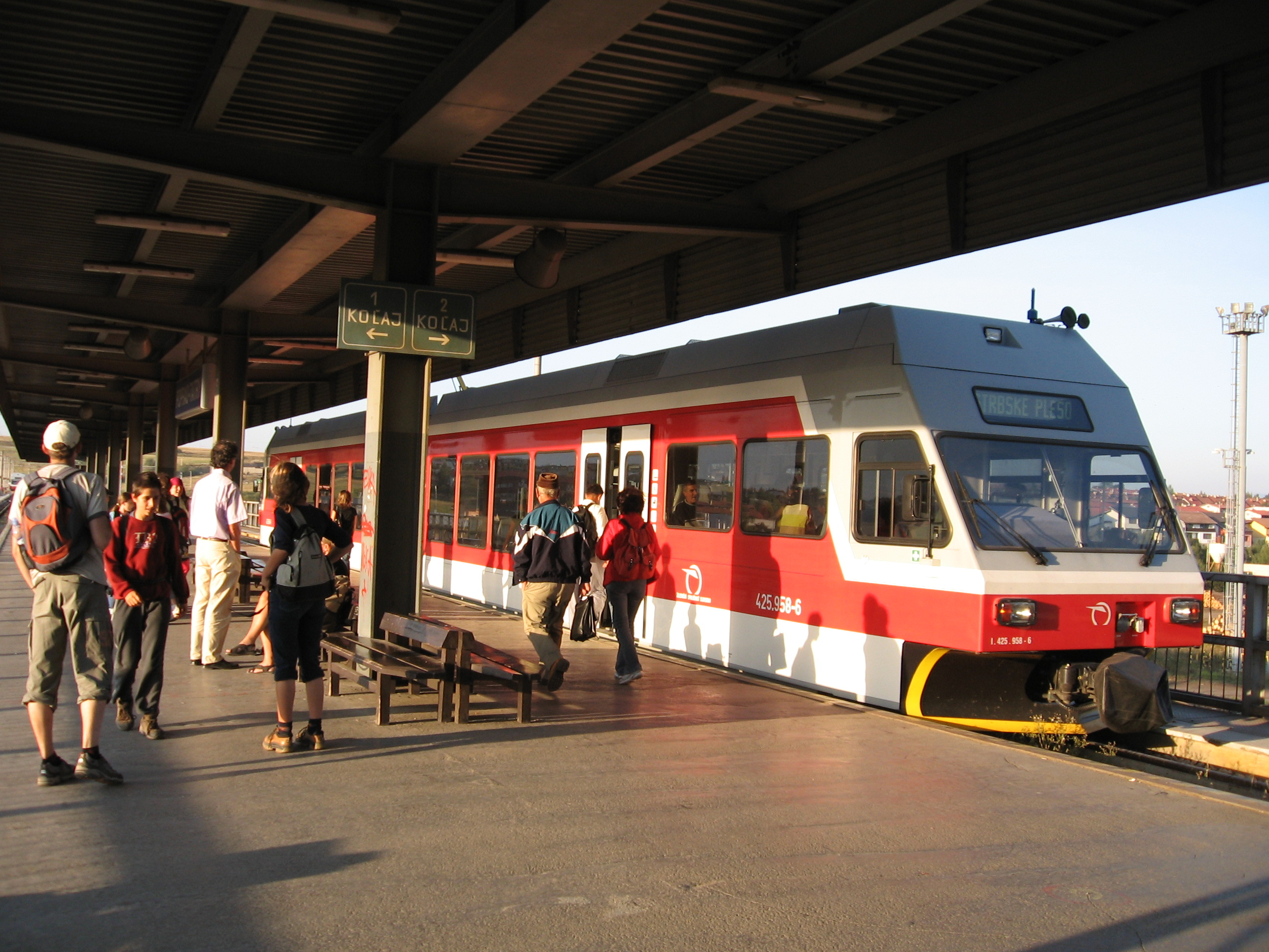 Tatra's electrical Railways, Poprad